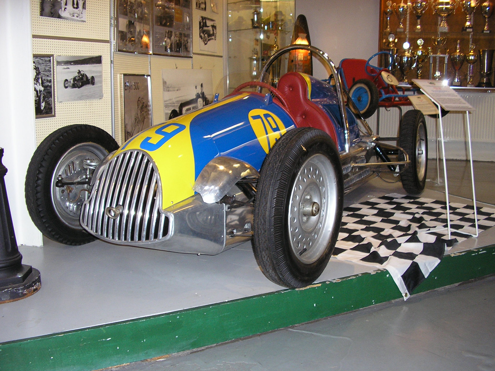 Effyh 500 (1947-1952). Powered by a single cylinder 500 cc JAP engine giving 42 hp at 6000 rpm. Weight: 210 kg. Top speed: 180 km/h.